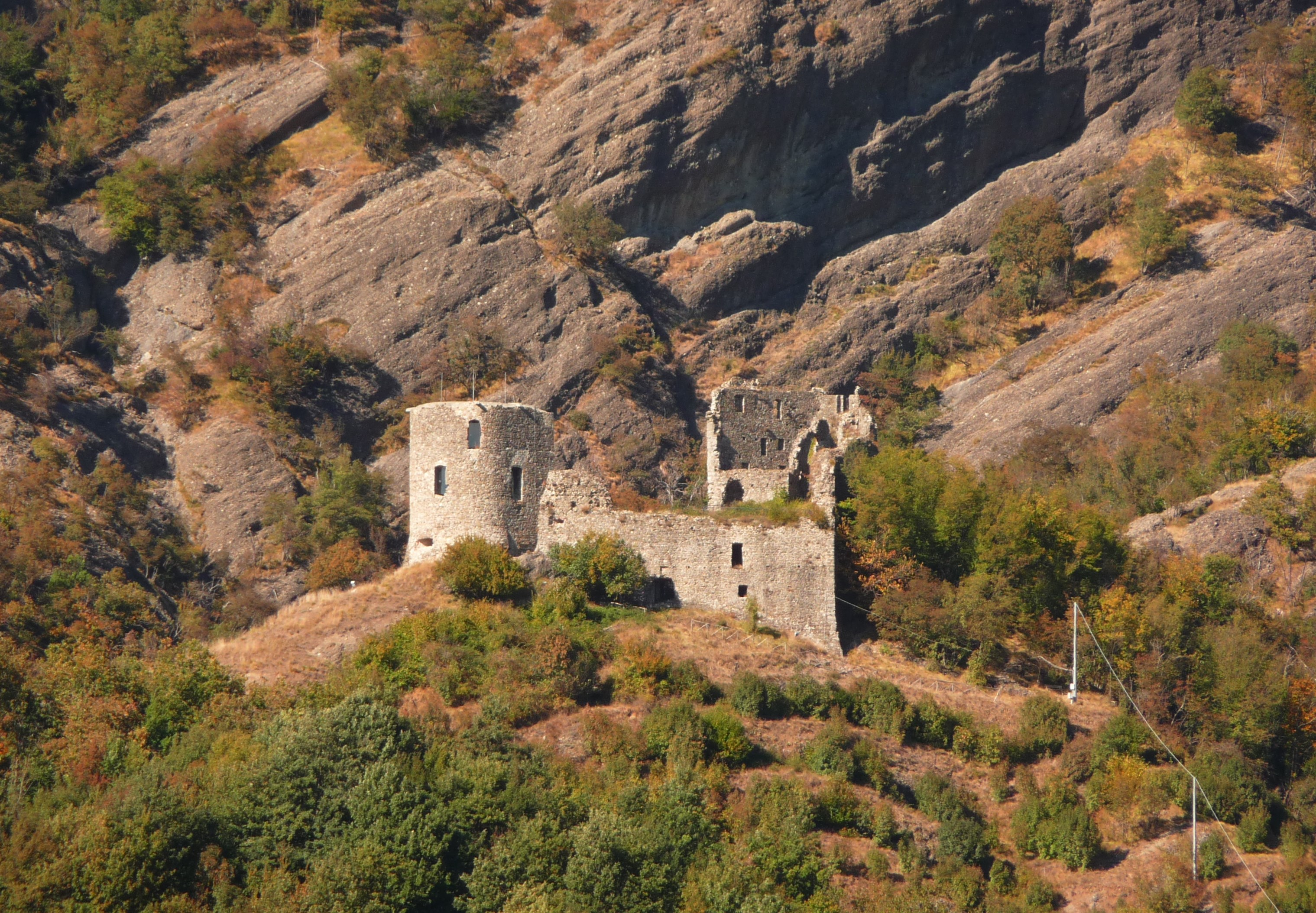 The ruins of the old castle in Savignone, Liguria